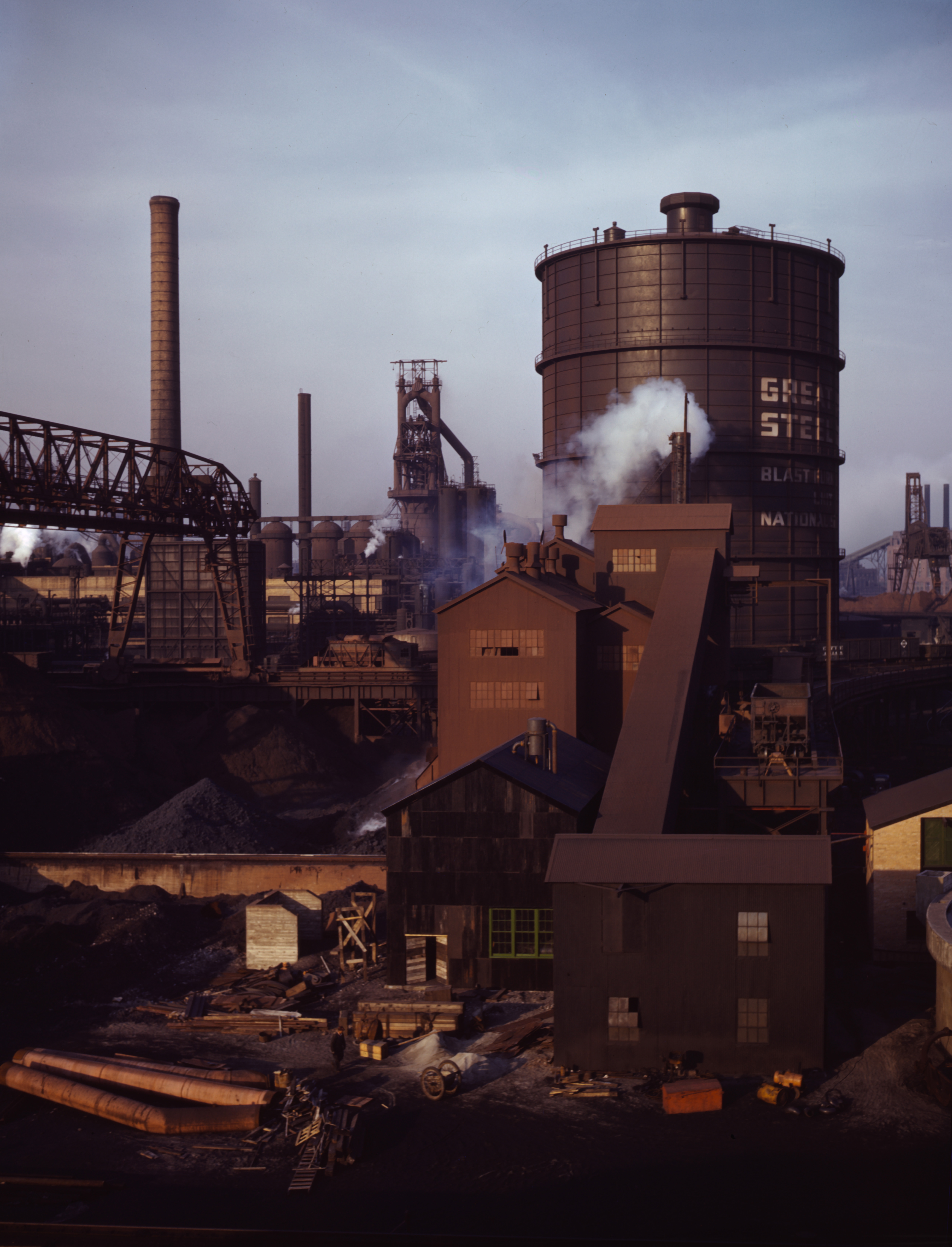 Hanna furnaces of the Great Lakes Steel Corporation, Detroit, Mich. General view showing tank which stores gas from the coke oven. Square building and extension in middle ground is where coal is fed to a feeder belt and then transferred to a storage place on top of the coke oven. The coal is then dropped into three inverted bottle-like containers and from there fed directly into the coke ovens.